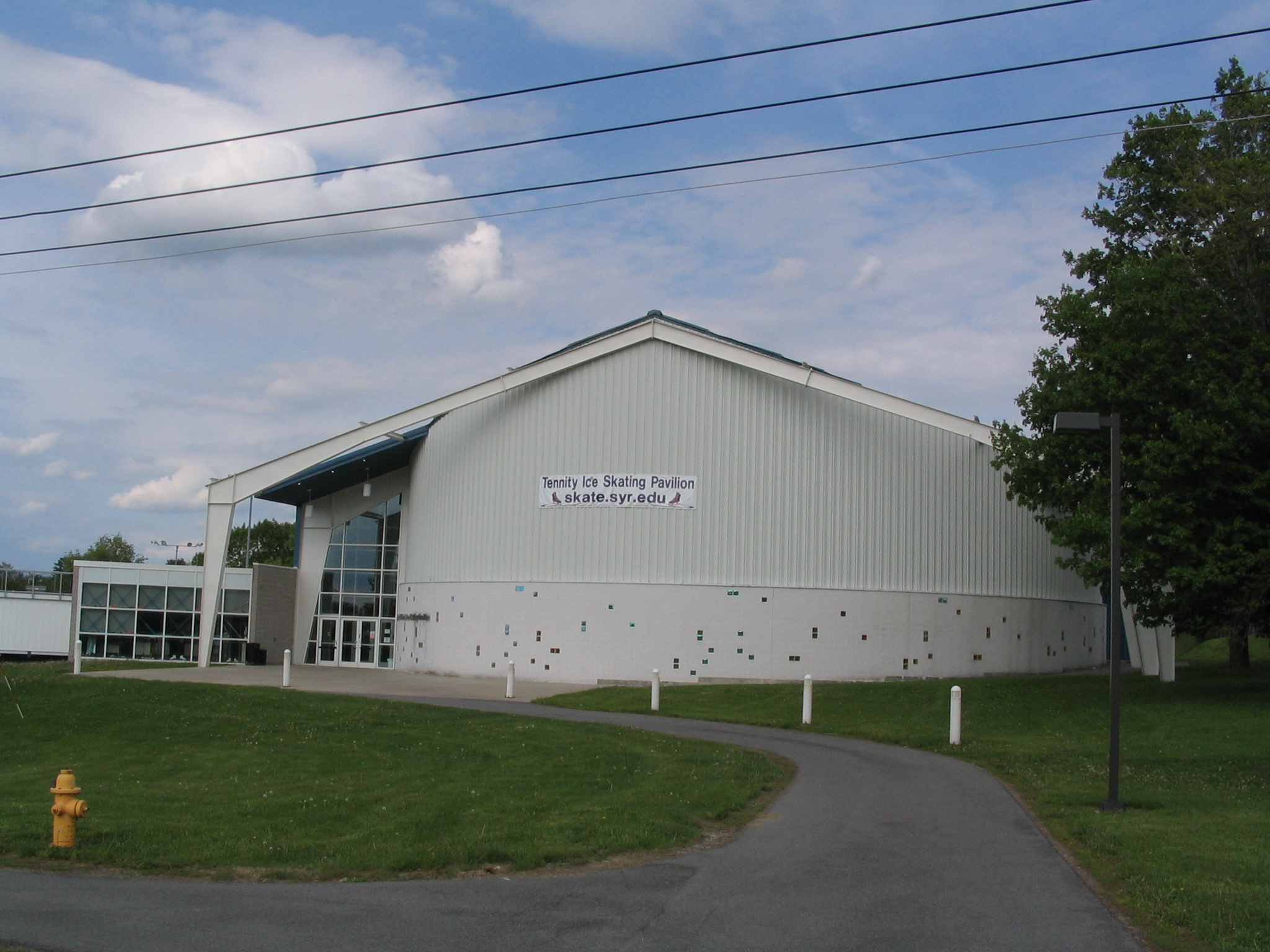 This is an image of the Tennity Ice Skating Pavilion that I took with my digital camera. This building is located on Syracuse University